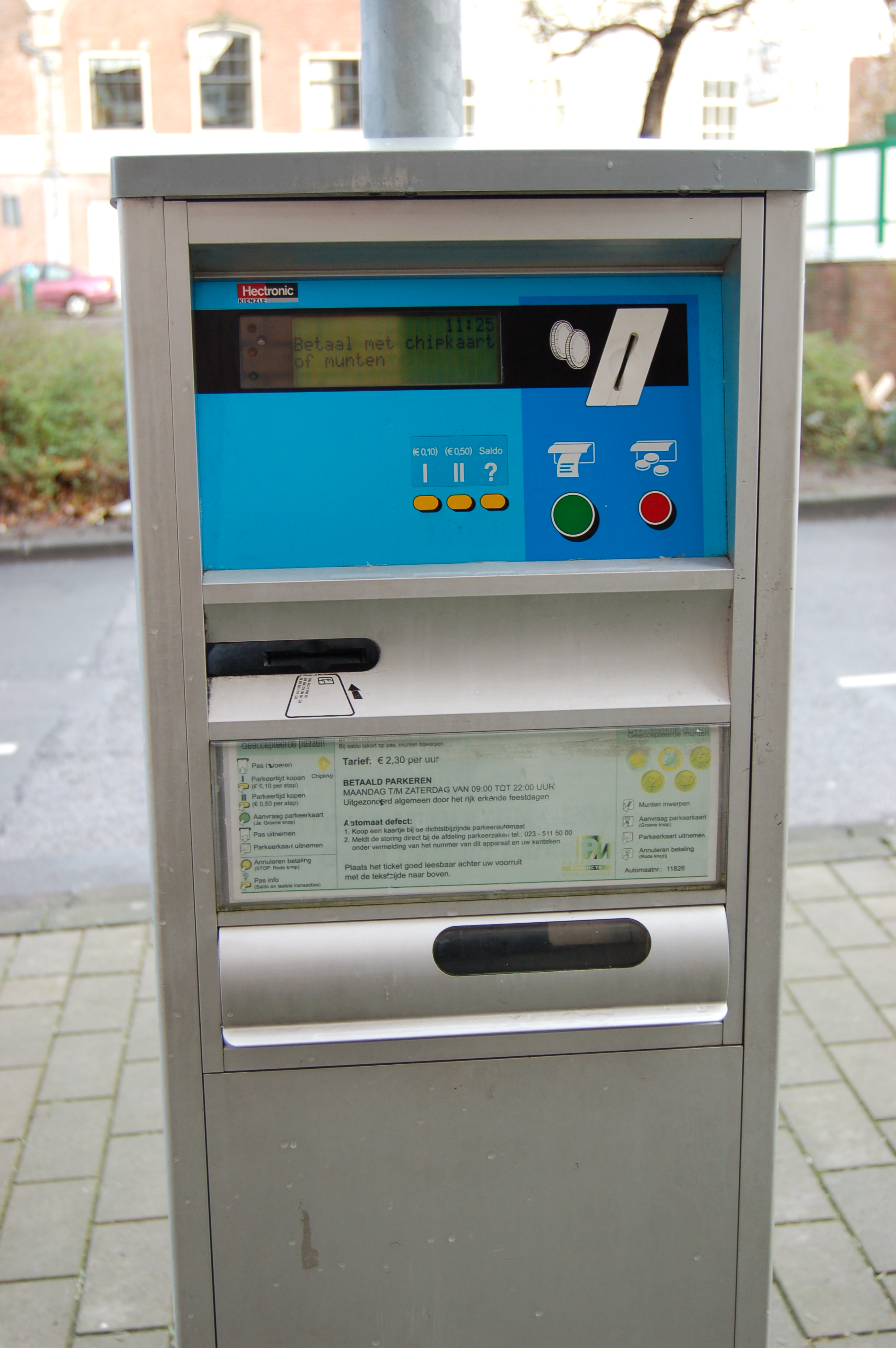 Parking meter in Haarlem, Netherlands